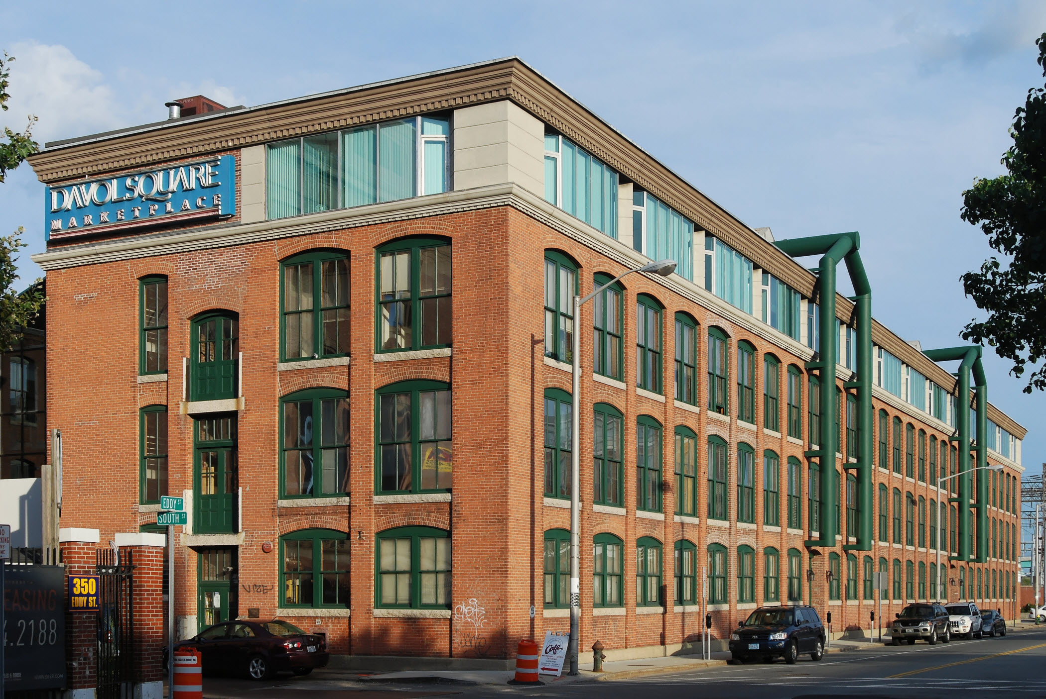 Davol Square (formerly Davol Rubber Co.), Providence, Rhode Island